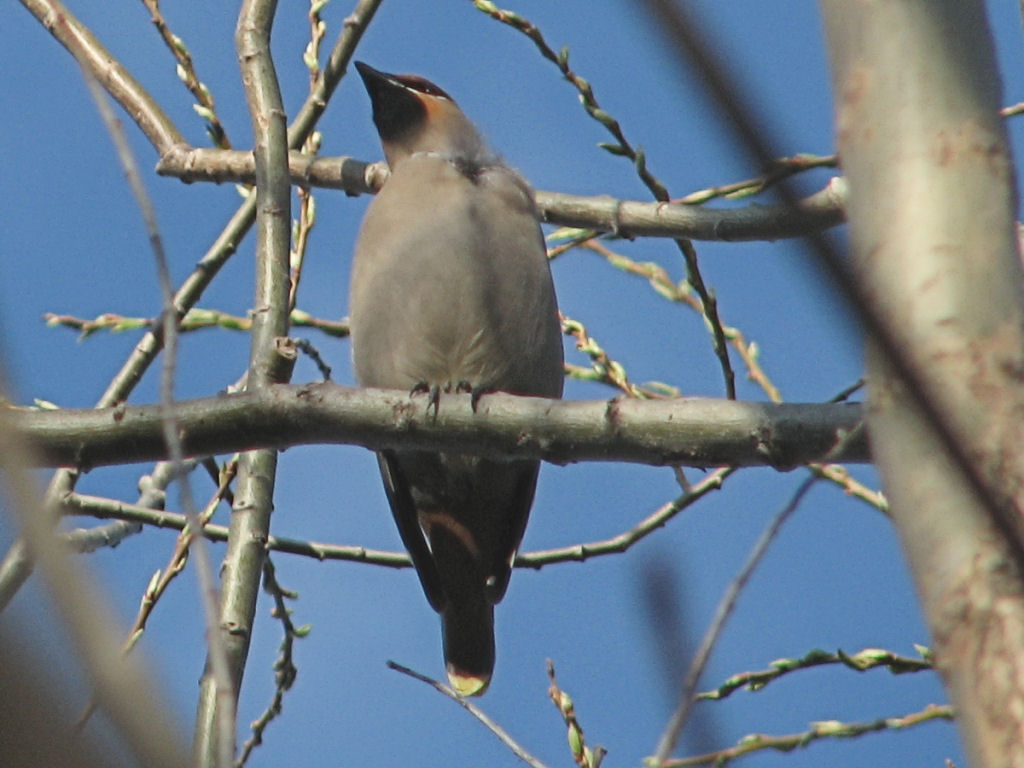 Female Bohemian Waxwing (Bombycilla garrulus) Ottawa, Ontario